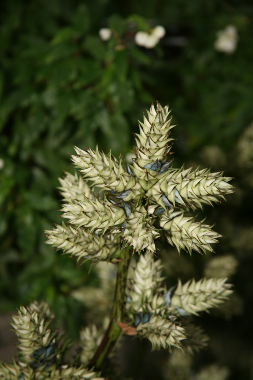 Member of the Bromeliad family - Bromeliaceae